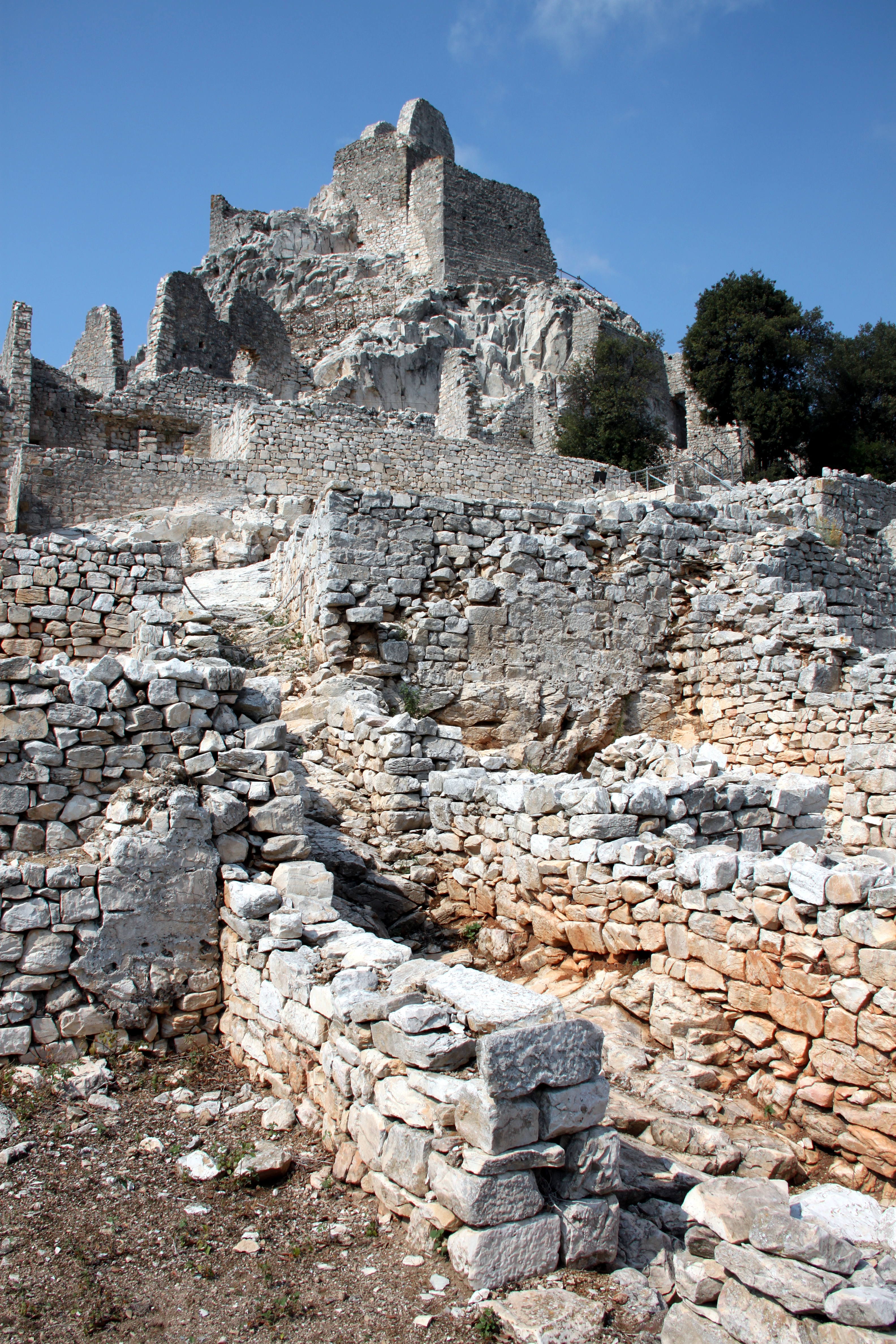 Rocca San Silvestro (engl. Saint Sylvester Castle) is a mediaeval hilltop castle (ital. rocca) in the metal-bearing hills (ital. Colline Metallifere) of Tuscany. It was inhabited for four centuries from the late 10th or early 11th century and is now partially demolished. The structure of hardly one hectare is situated on the top of a hill in the very north of the middle-Italian municipality of Campiglia Marittima. It once served miners and metal-smelters as an environment for living and labour. The castle is one of the most important samples of a stately settlement with relationship to mining and metalworking in Europe. Additionally, it is the main visitors’ attraction of the Archaeological Mines Park of San Silvestro which opened in 1996. The lords’ quarter or citadel (see background) was inhabited by the castle lords as well as by soldiers, servants and other persons directly dependent on them. The terraced residential area (see front) was inhabited by miners, smelting workers and craftsmen including their families.